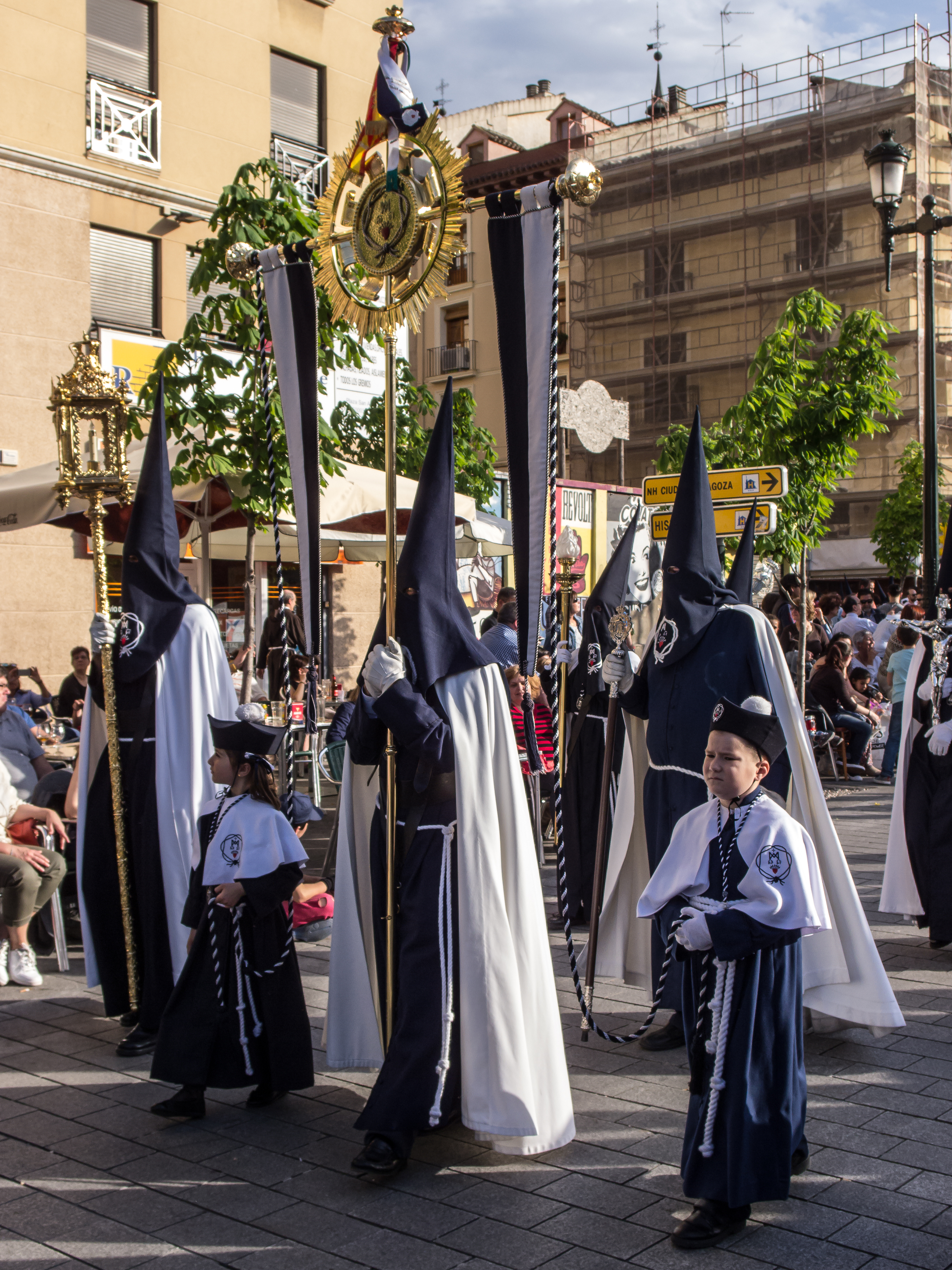 Procesión del Santo Entierro. Cofradía dl Prendimiento. This is a photography of a Folklore festival in Spain (Wikidata id Q9075892).